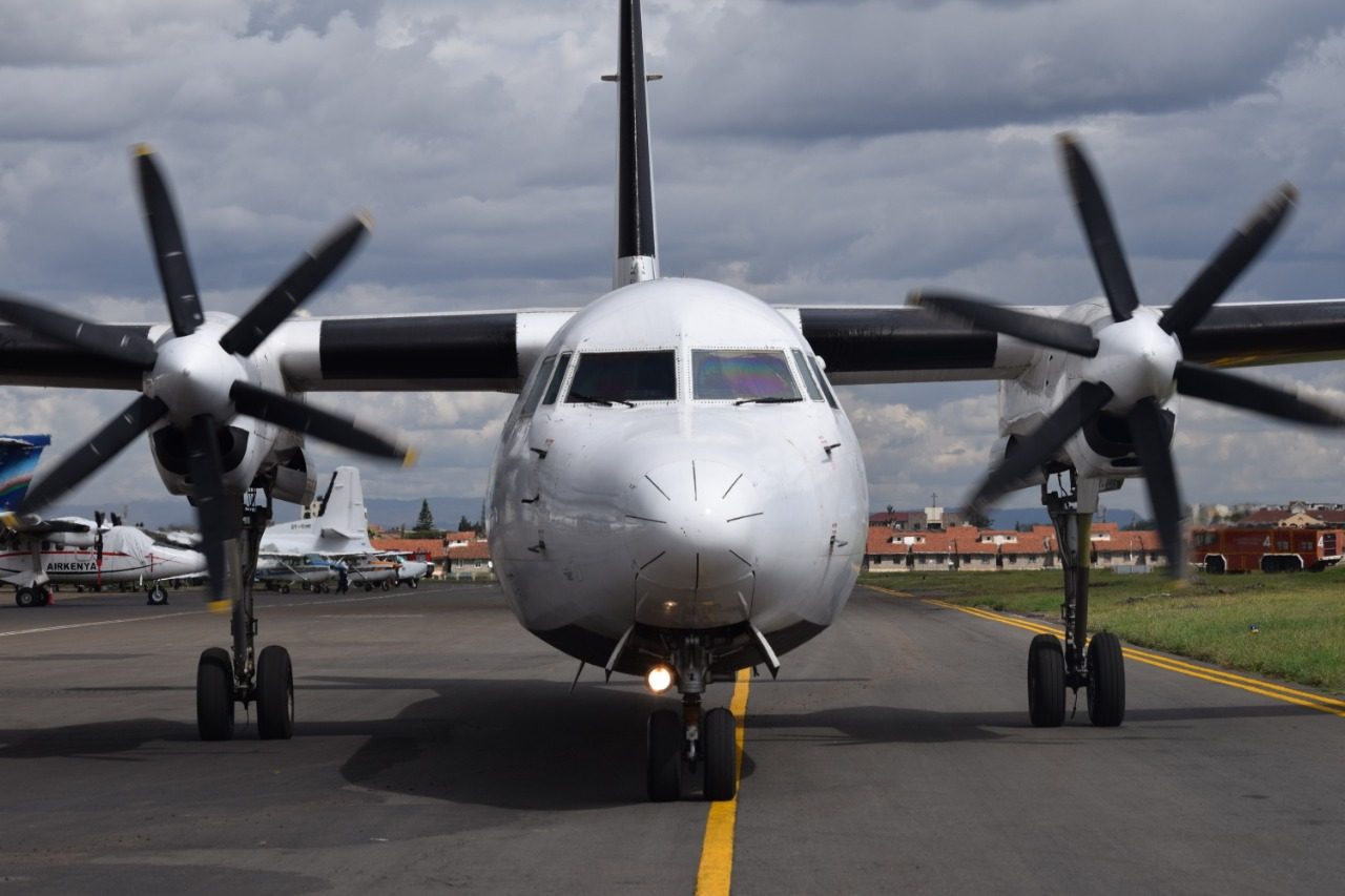 This is a Fokker50 plane ready for takeoff at Wilson Airport in Nairobi, capital city of Kenya, heading into the heavy clouds. This is an image with the theme "Africa on the Move or Transport" from: Kenya